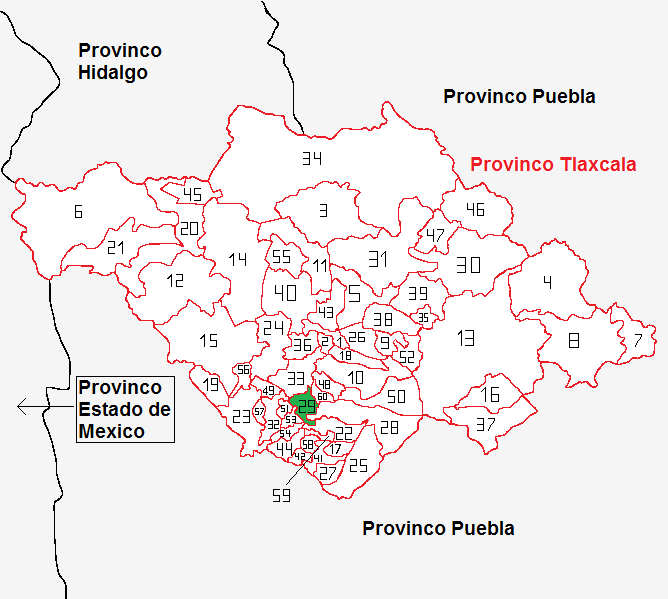 locator map Tlaxcala